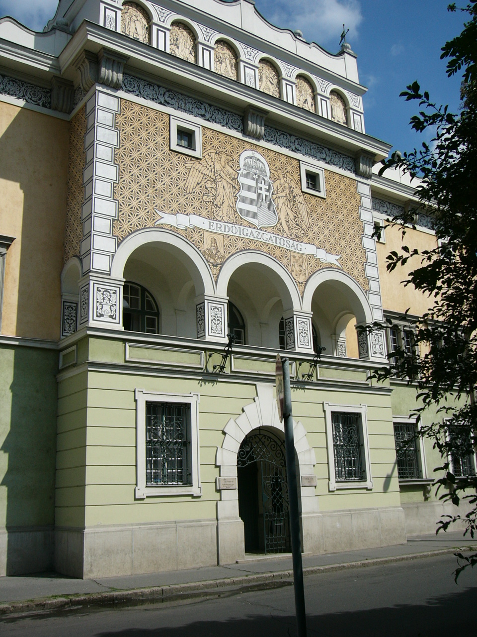 Main building of the of the Északerdő Rt. Miskolc, Hungary